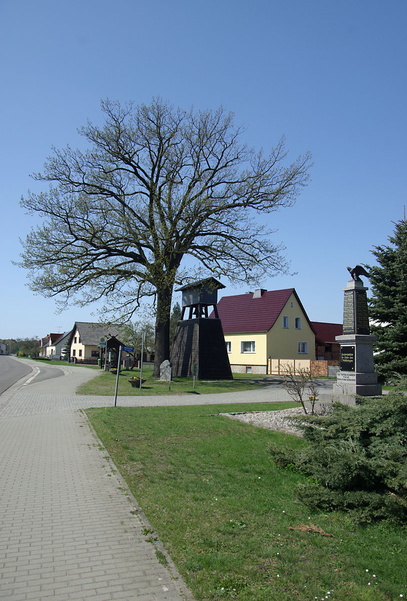 Village of Striesow, north of Cottbus, Brandenburg, Germany